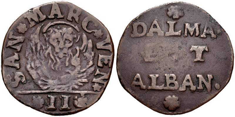 Venice, for Venetian Colony DALMATIA and ALBANIA. Republic of Venezia. Decreed by the Senate, 10 February 1691. Æ Gazzetta (27mm, 5.74 g, 4h). Lion of St. Mark facing * / DALMA / ET / ALBAN / * in four lines. CNI 43